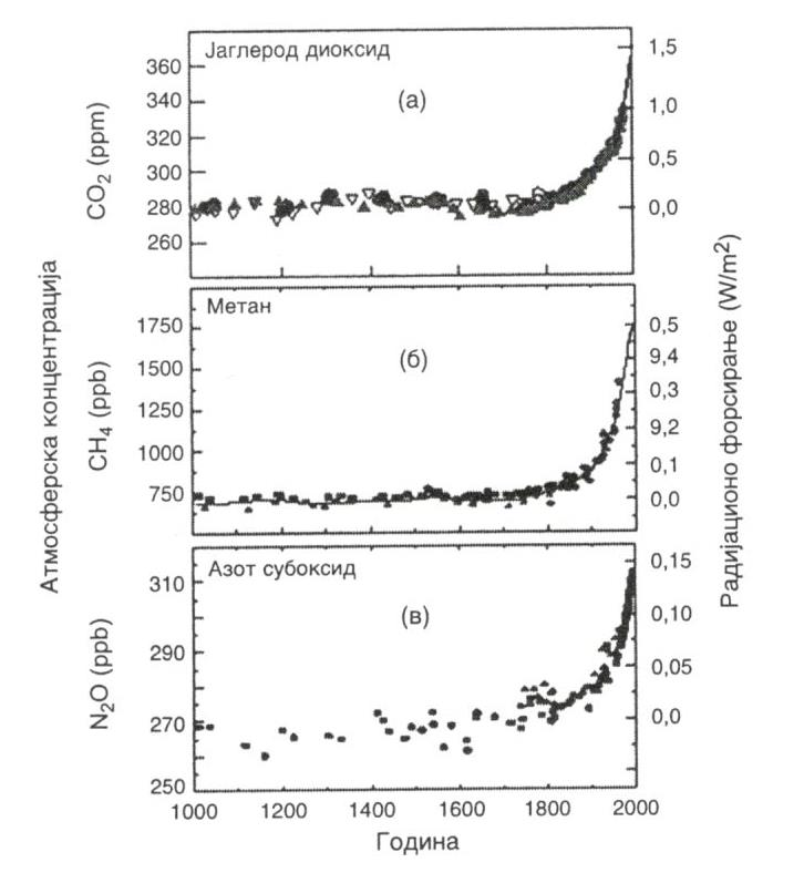 Chapter for the Greenhouse effect from the Encyclopedia of world climatology edited by John E. Oliver, translated on Macedonian